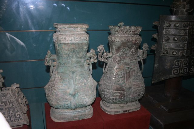 Bronze vessels from the Spring and Autumn Period of China